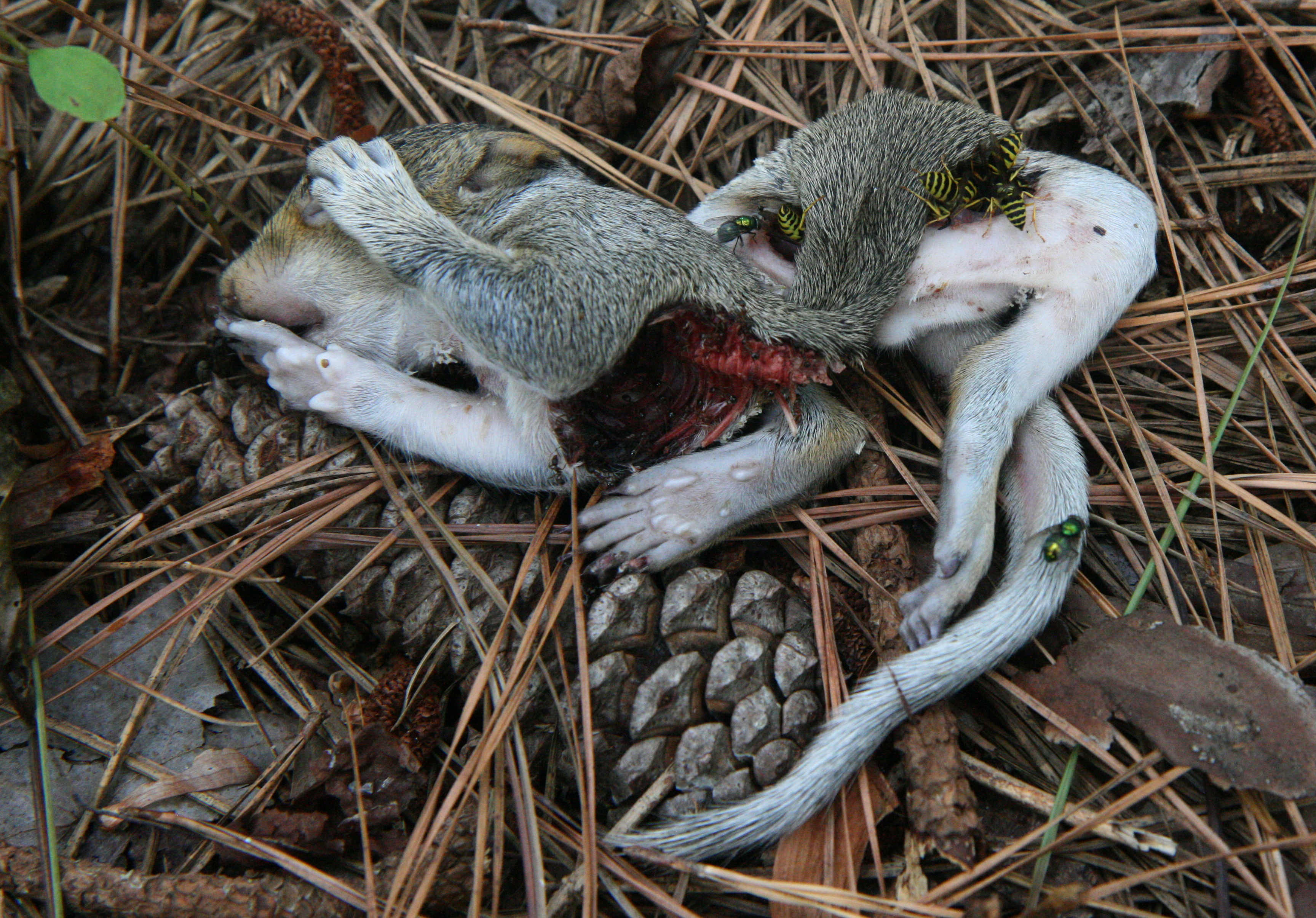 Flies and wasps feeding on the fresh corpse of a squirrel in Durham, North Carolina.